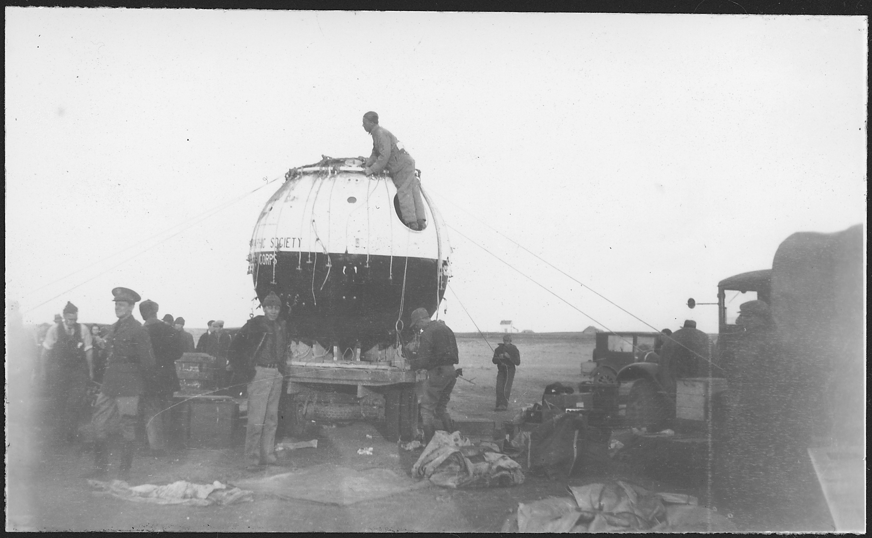 Scope and content: This National Geographic Society-Army Air Corps balloon set a world manned altitude record of 72,395 ft. on Nov. 11, 1935. The pictures show various views of the gondola on the ground, CCC personnel, Army and National Geographic Society personnel, and the balloon being folded into a ground cloth.